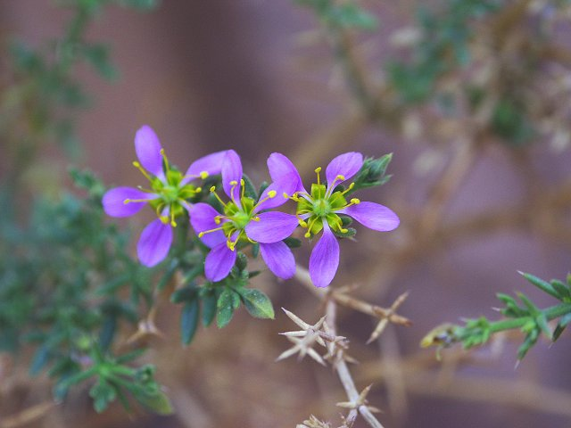 The purple flowers of Fagonia arabica grow in Uweinat in the Libyan Dessert. Photograph used with permission, courtesy of Fliegel Jezerniczky Expeditions.